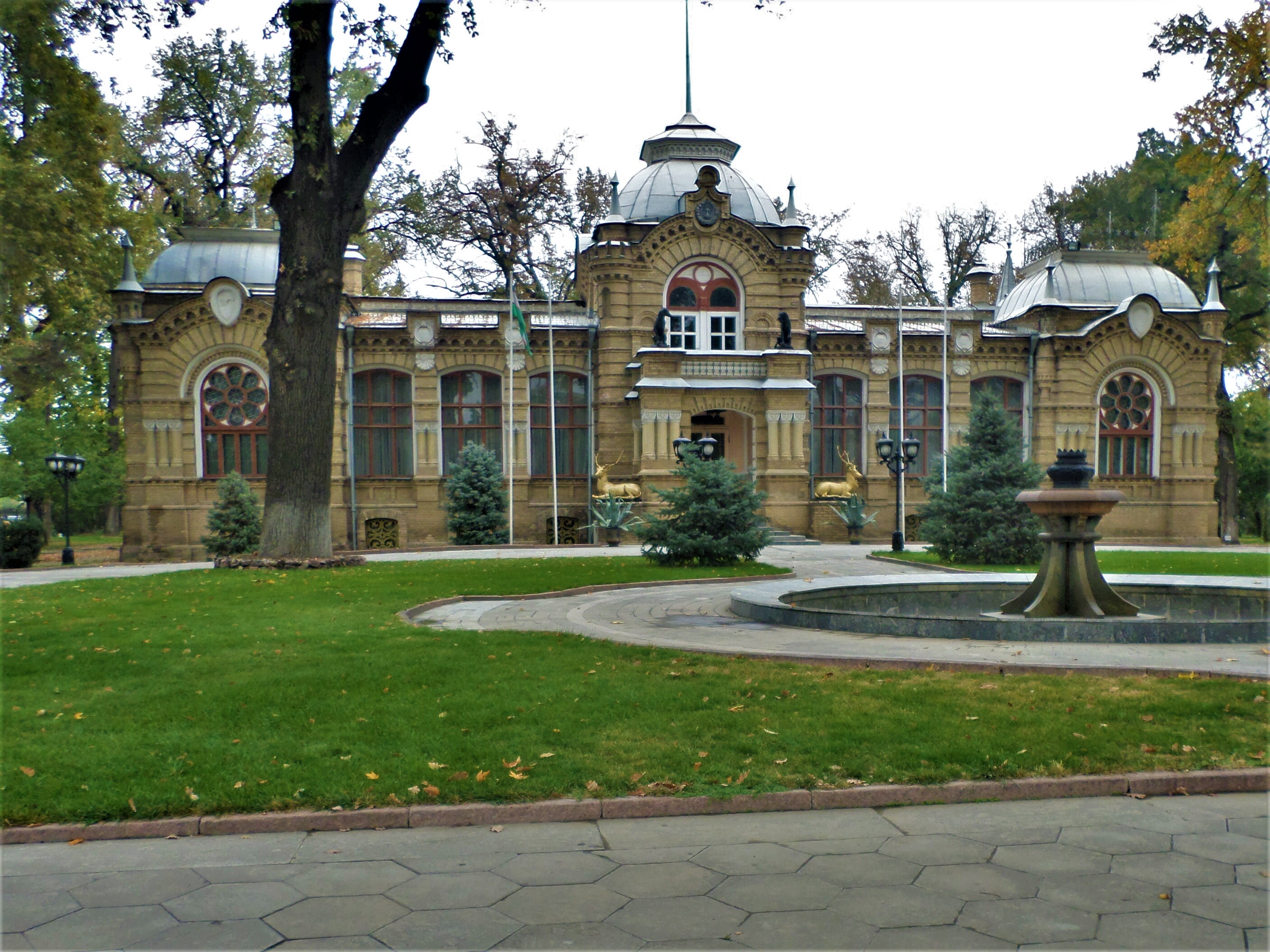 Palace of Grand Prince Nikolai Konstantinovich. Constructed in 1890 B.C. Geyntselmanom. Wings finishing work A.N. Benya.